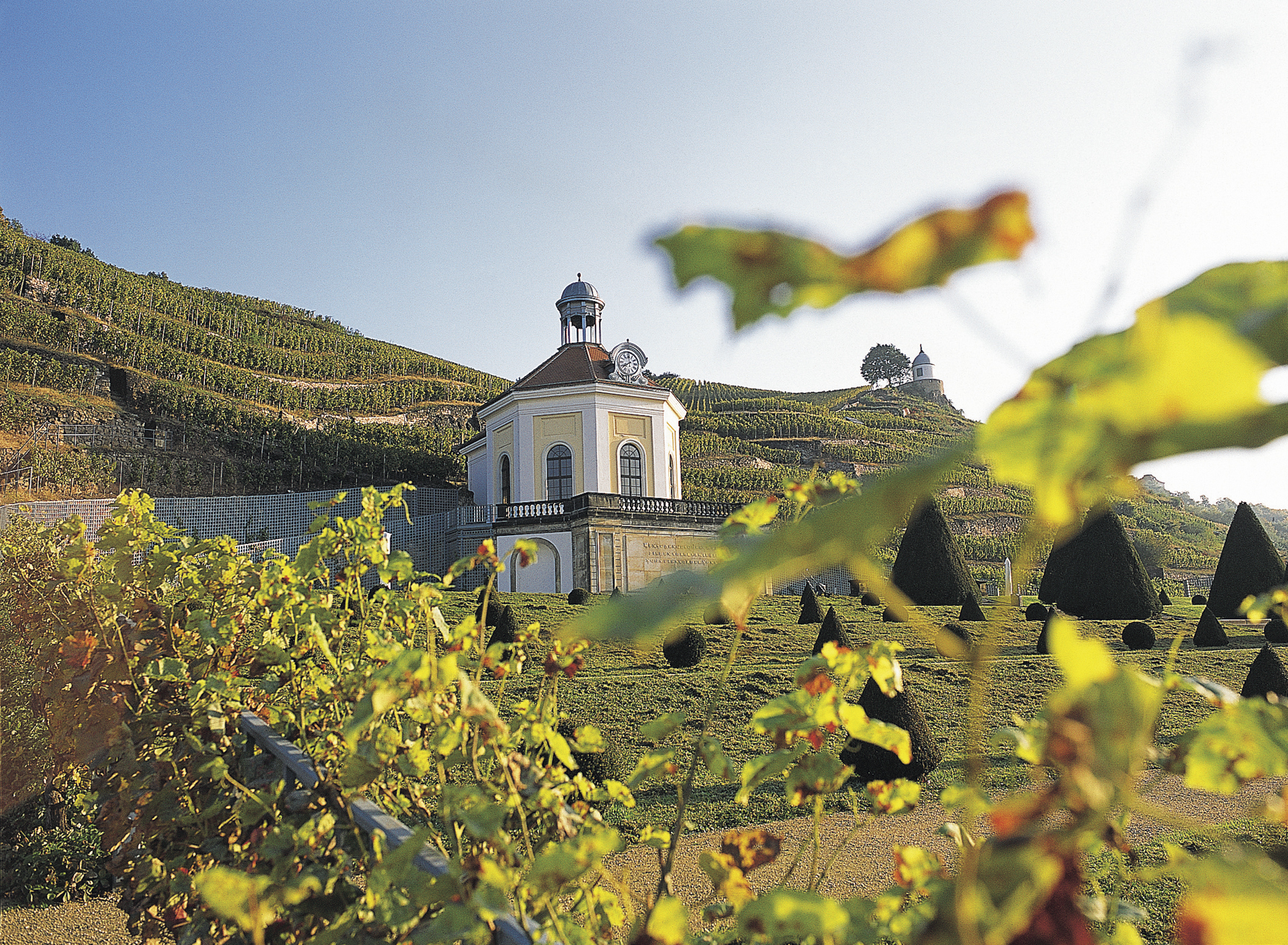 Im Park von Schloss Wackerbarth, Radebeul. Park of Castle Wackerbarth in the city of Radebeul.